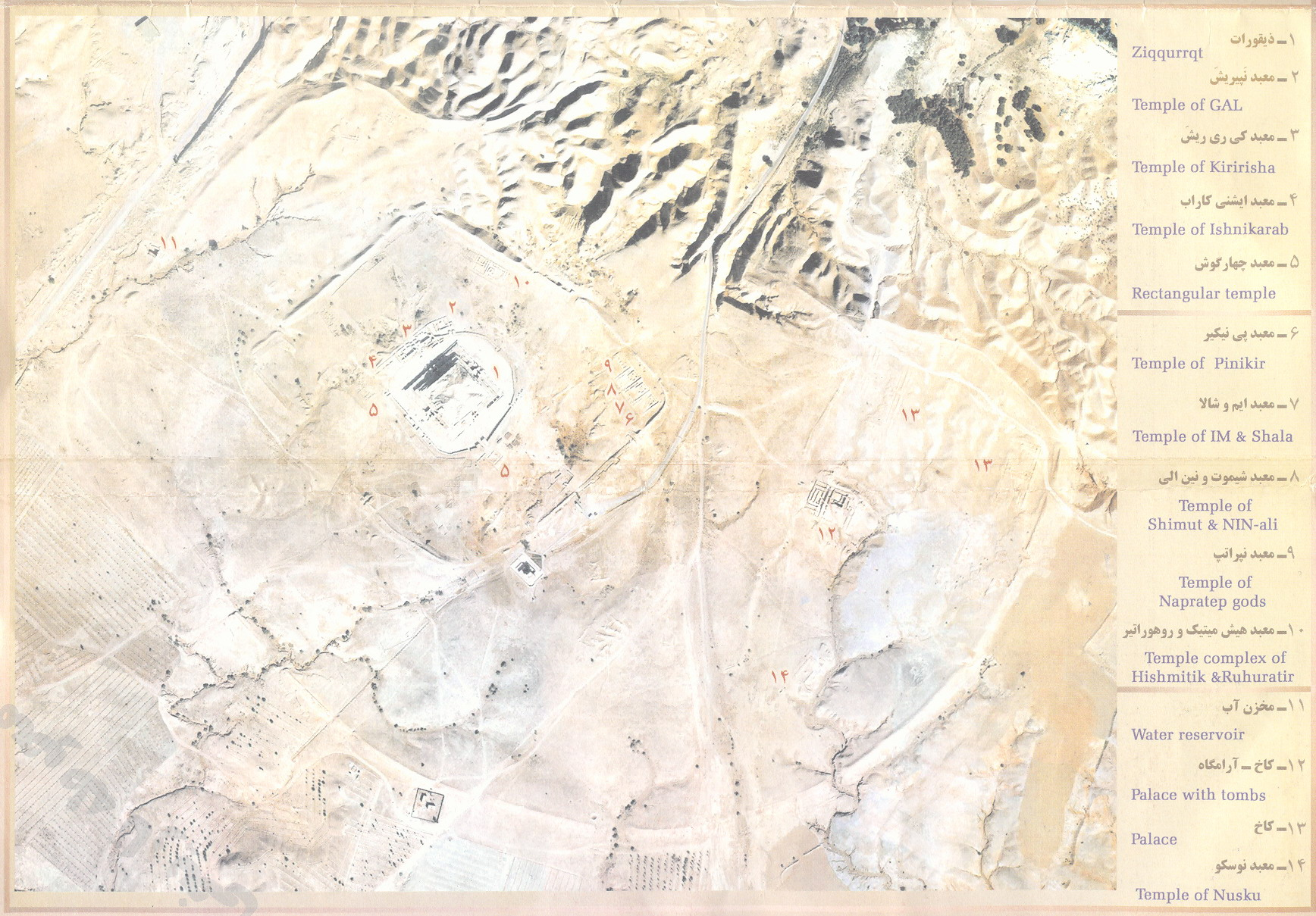 map of Dor Ontash (Choghazanbil) Complex [free pamphlet offered to the tourists]